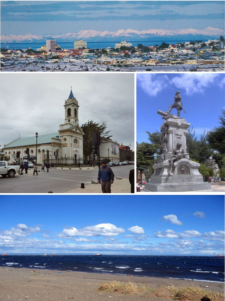 City in wintertime with further south the Darwin Mountain Range in Fireland.